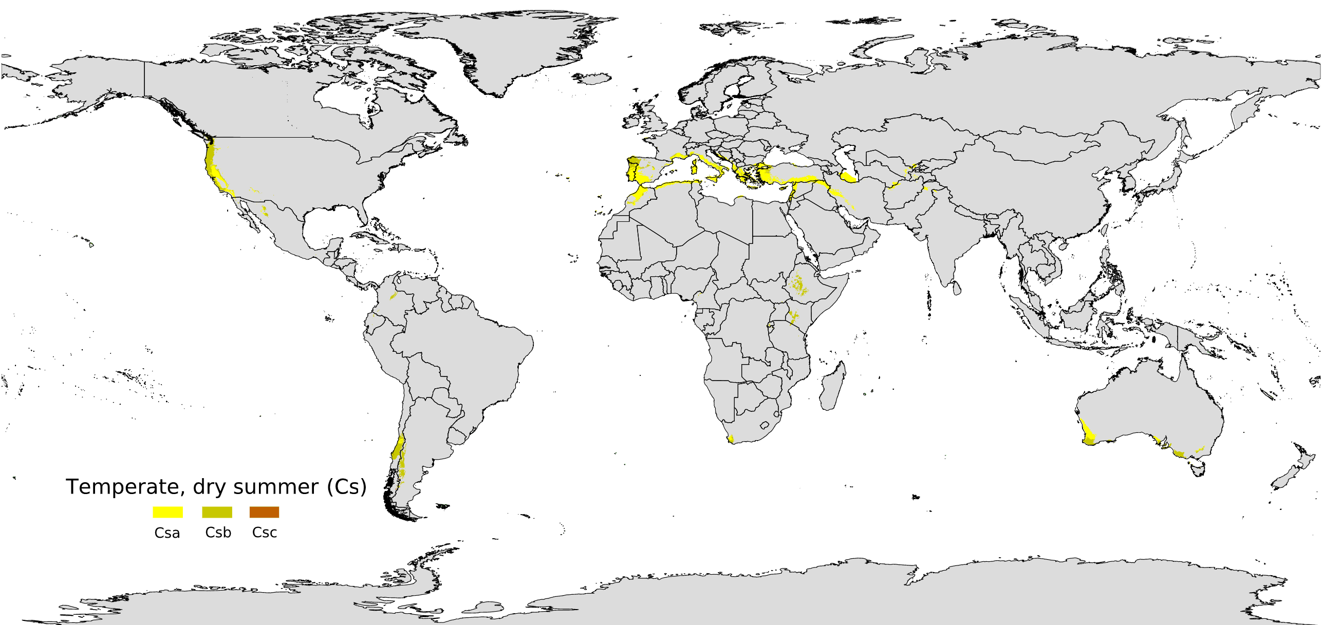 Köppen–Geiger climate classification map for Mediterranean climate (Cs)